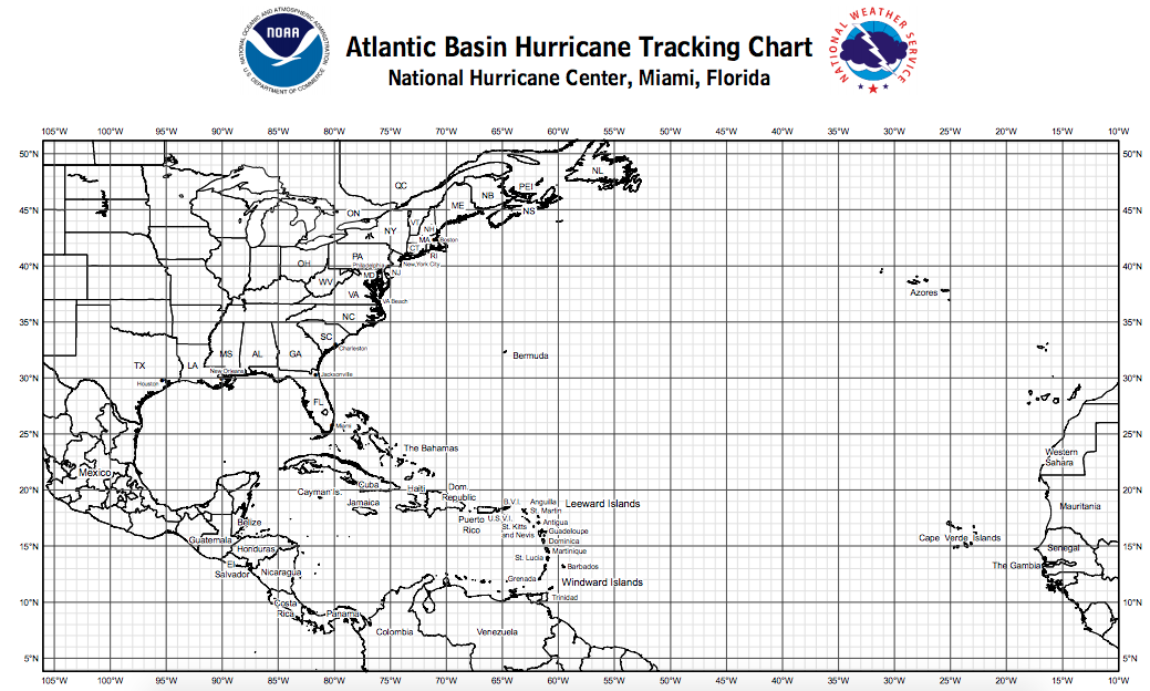 A sample north Atlantic hurricane tracking chart